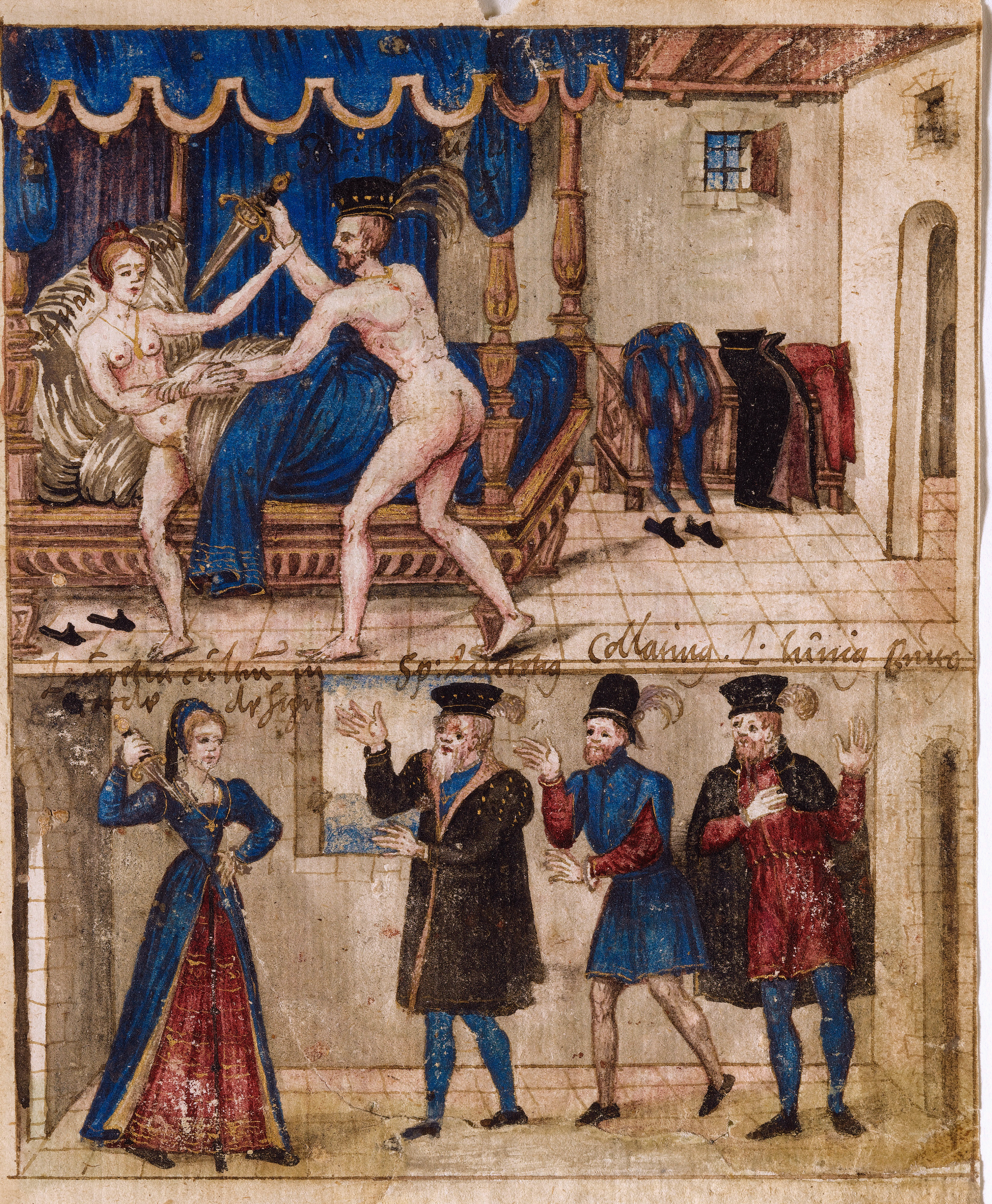 Lucretia's rape by Sextus Tarquinius, and her suicide manuscript on paper 18.7 x 13.5 cm before 1561 Lucretia resisting her attacker Sextus Tarquinius Lucretia before her father, husband and his follower ready to kill herself